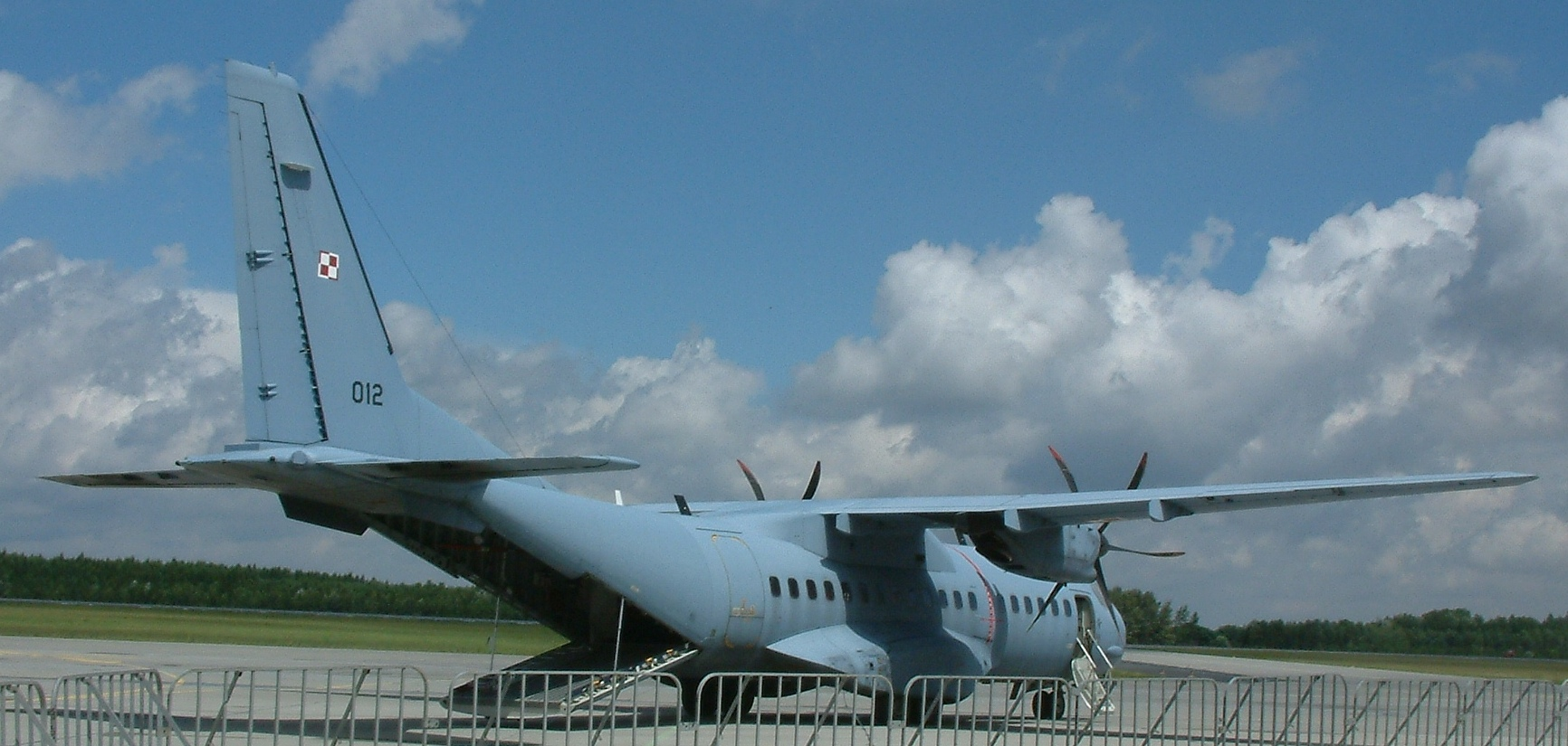 CASA C-295M #012 from 13th Transport Aviation Sqn, 31st Air Base Poznań-Krzesiny